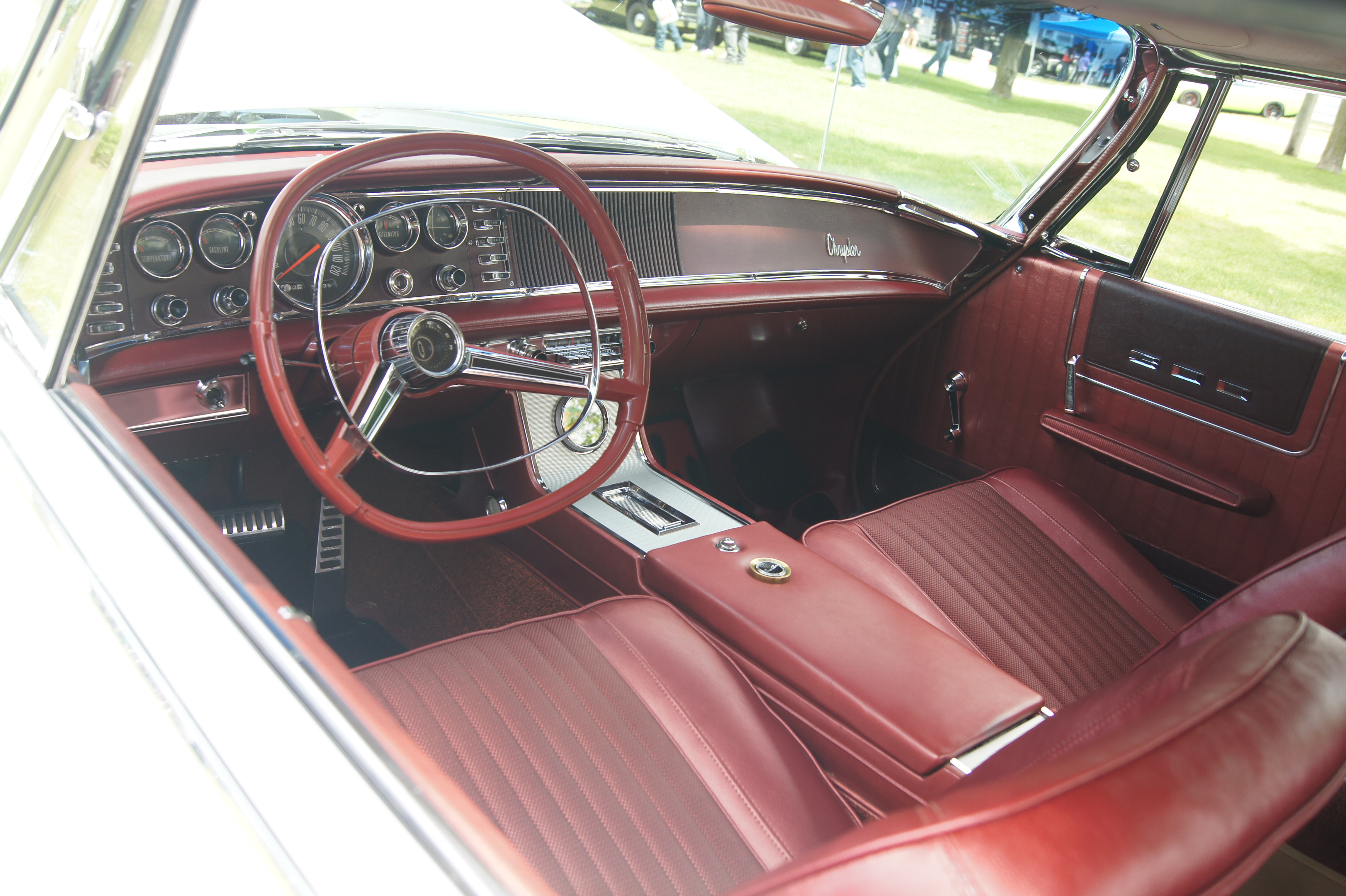 Midwest Mopars in the Park National Car Show & Swap Meet Dakota County Fairgrounds Farmington, Minnesota May 30 & 31, 2015 Click here for more car pictures at my Flickr site.